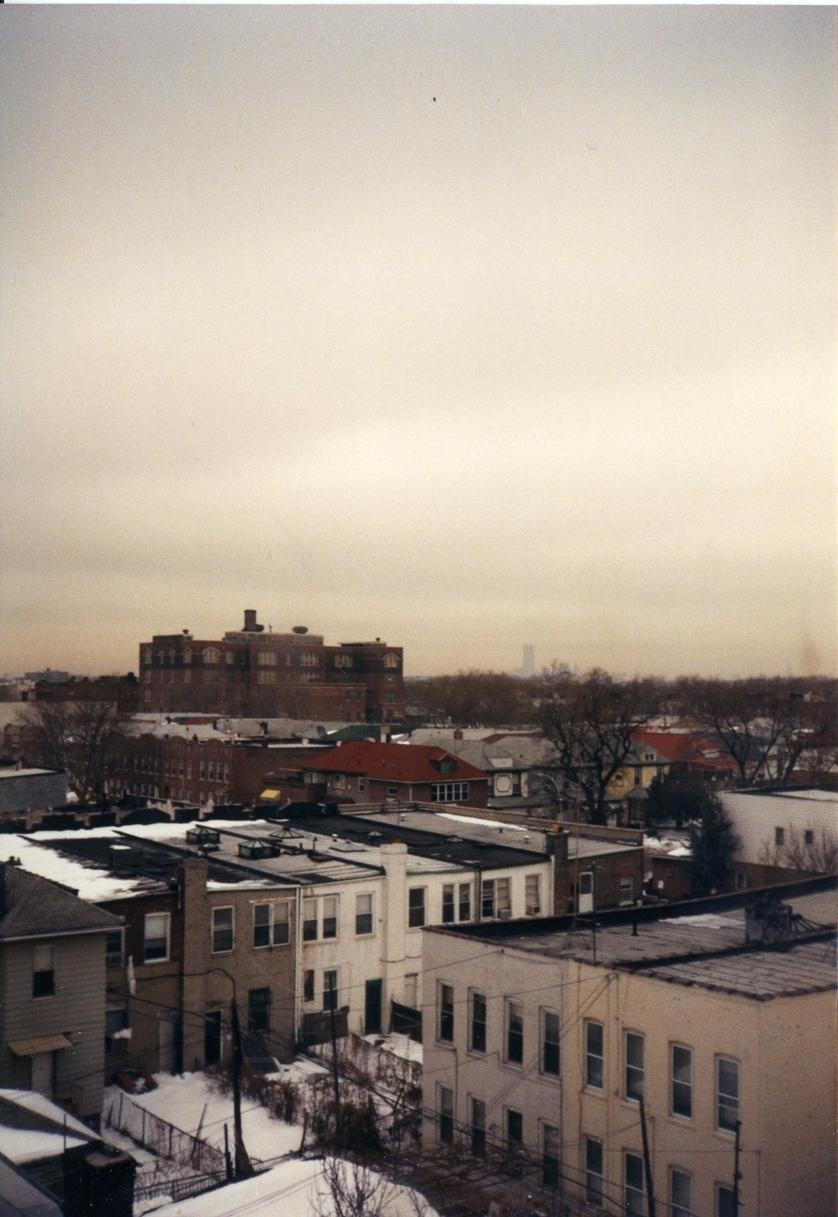 Overlooking the New Utrecht subsection from the Bensonhurst, Brooklyn